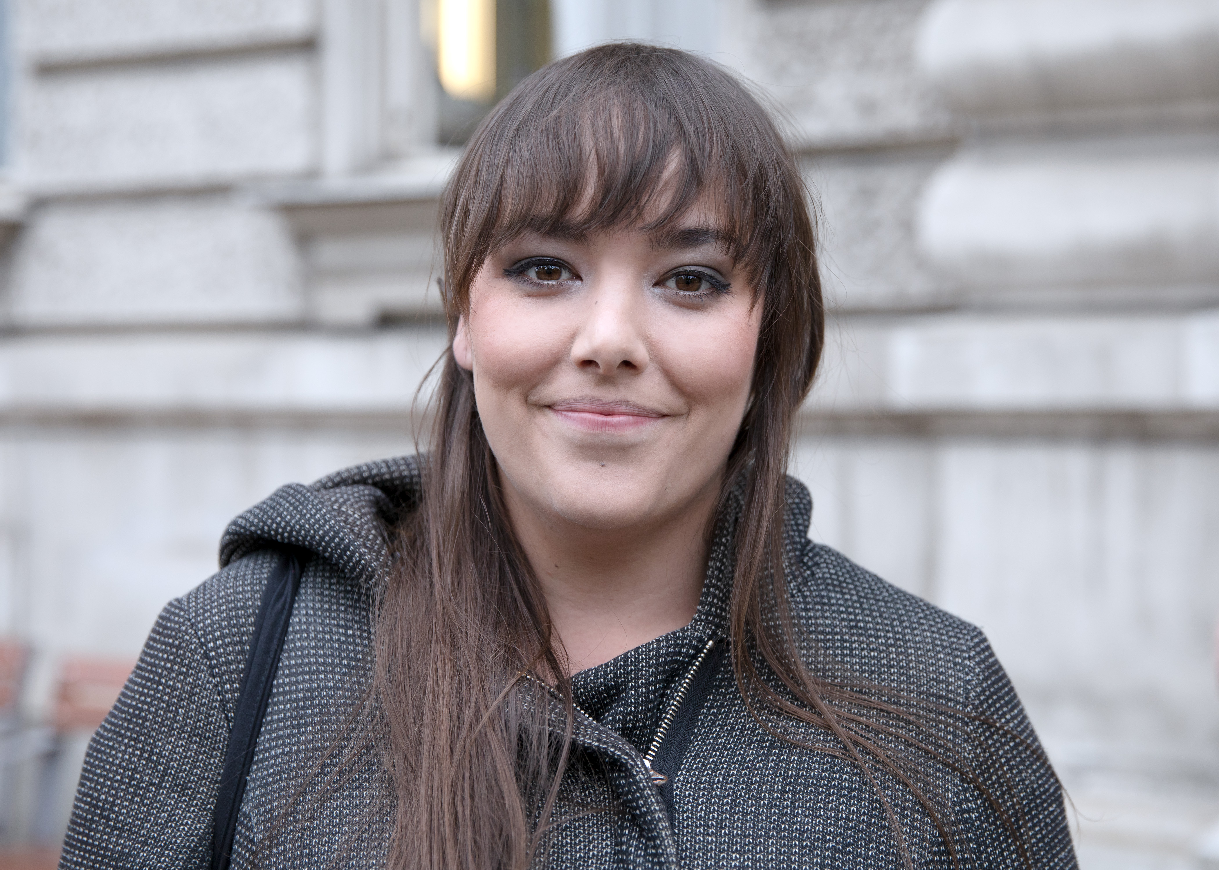 Yasmo at the Amadeus Austrian Music Award 2018 at Volkstheater in Vienna.